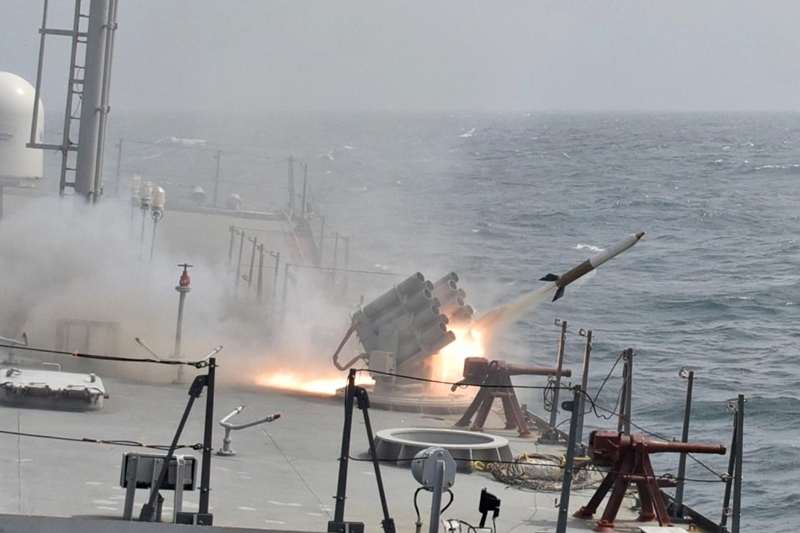 INS Chennai launching a Kavach Rocket from the Kavach Chaff Rocket Launcher manufactured by the Ordnance Factory Board (OFB)